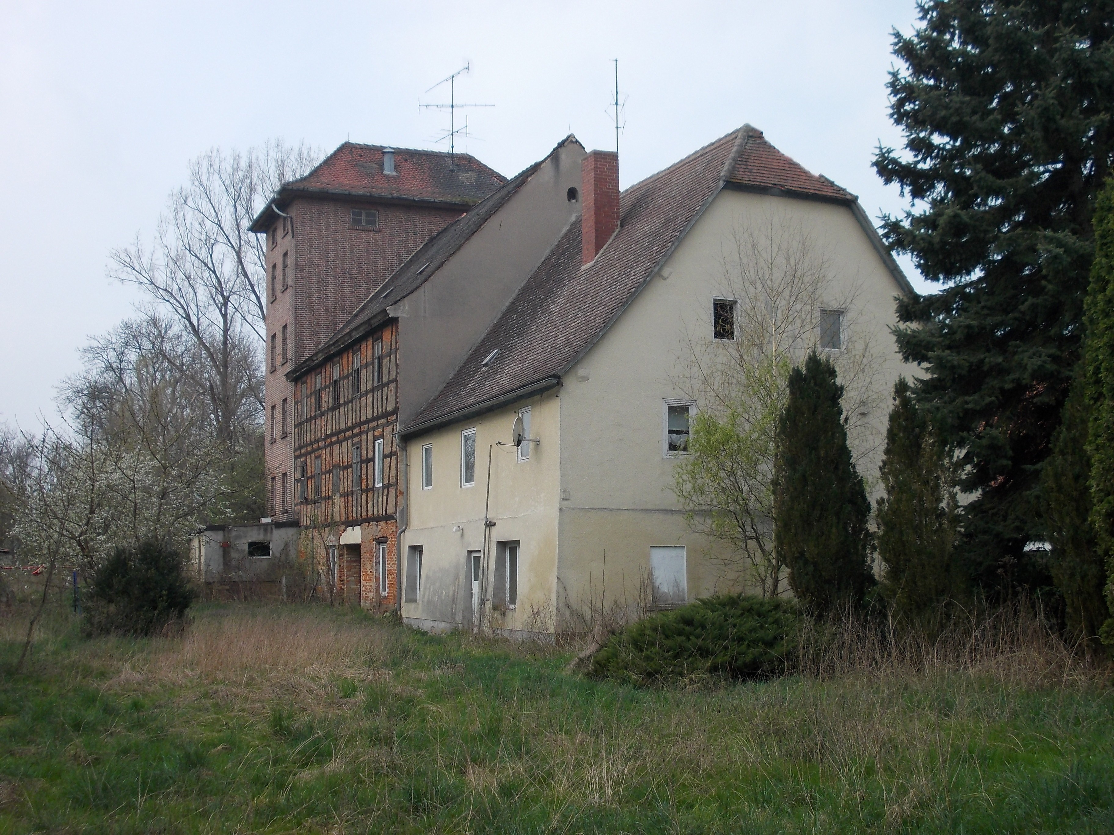 Old mill in Taucha (Hohenmölsen, district: Burgenlandkreis, Saxony-Anhalt)